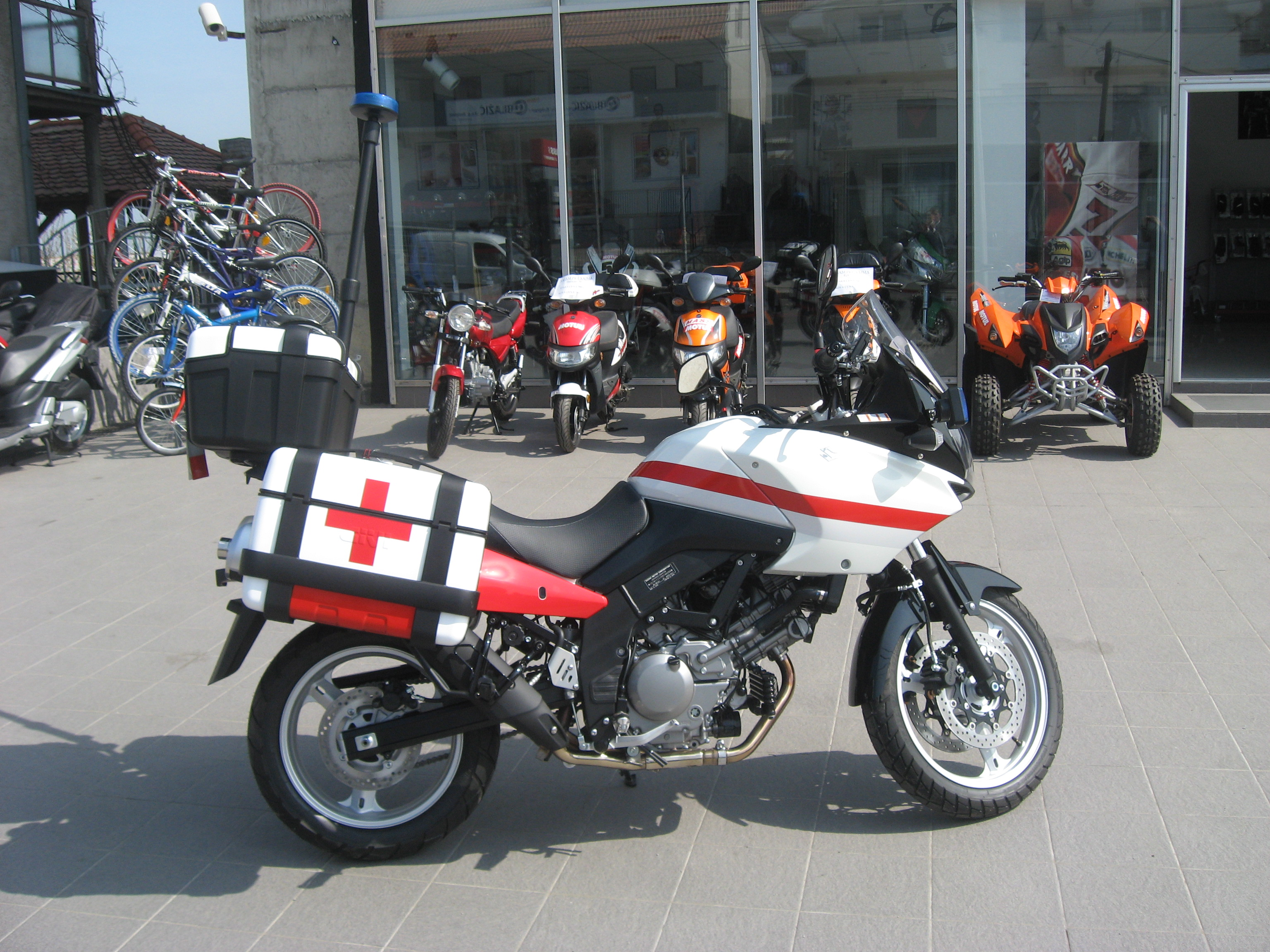 Emergency Medical Service in Belgrade has introduced a Suzuki V-Strom 650 in 2011. The crew consists of a motorcycle driver and a doctor. The three bags is the equipment for CPR, bandaging, anti-shock therapy, paramedic and other equipment.